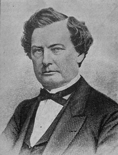 Richard Yates, Gov. of Illinois 1861-65